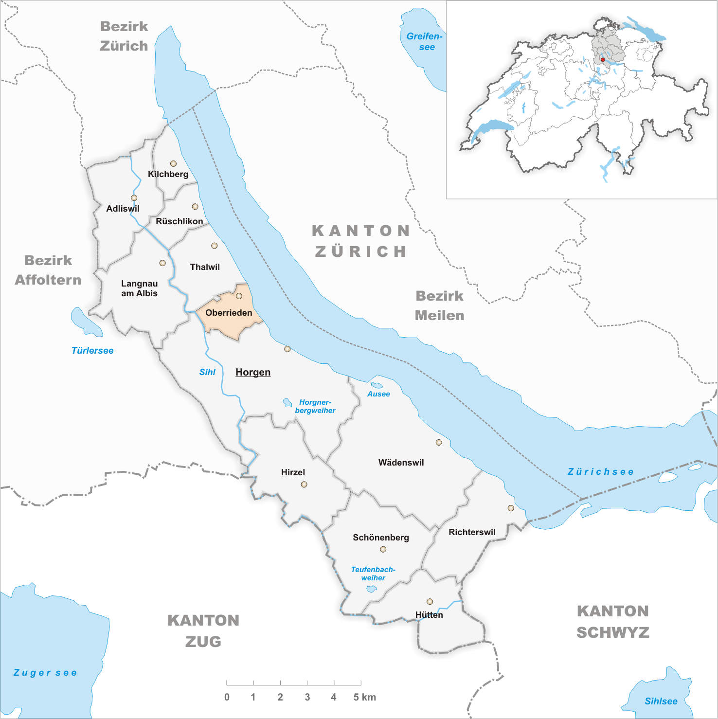 Municipality Oberrieden